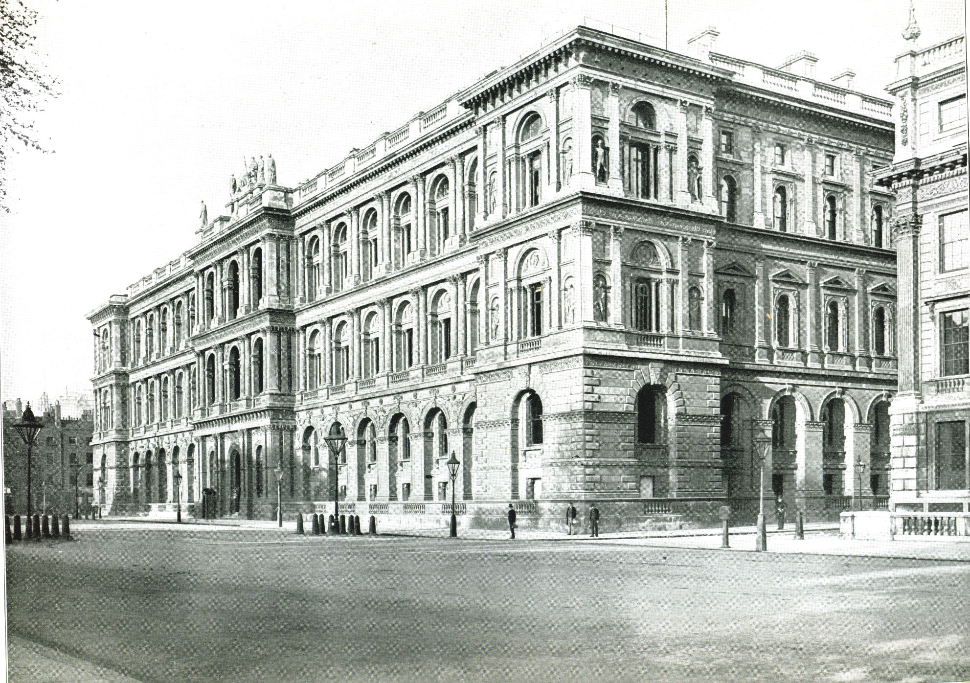 The sentry box outside the Foreign Office dates the photograph to the mid 1880s. There is a Police Constable standing at the end of Downing Street near the junction with Whitehall but there are no gates. The buildings on the extreme left are in King Street.